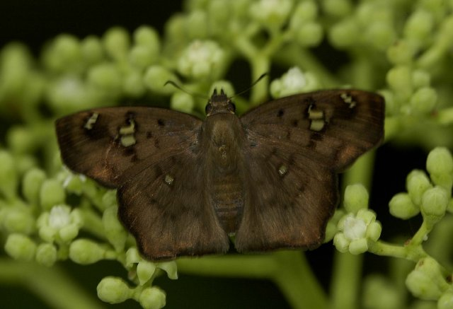 Black Angle, Tapena thwaitesi WSF at Nagla Thane, Sanjay Gandhi National Park (India)